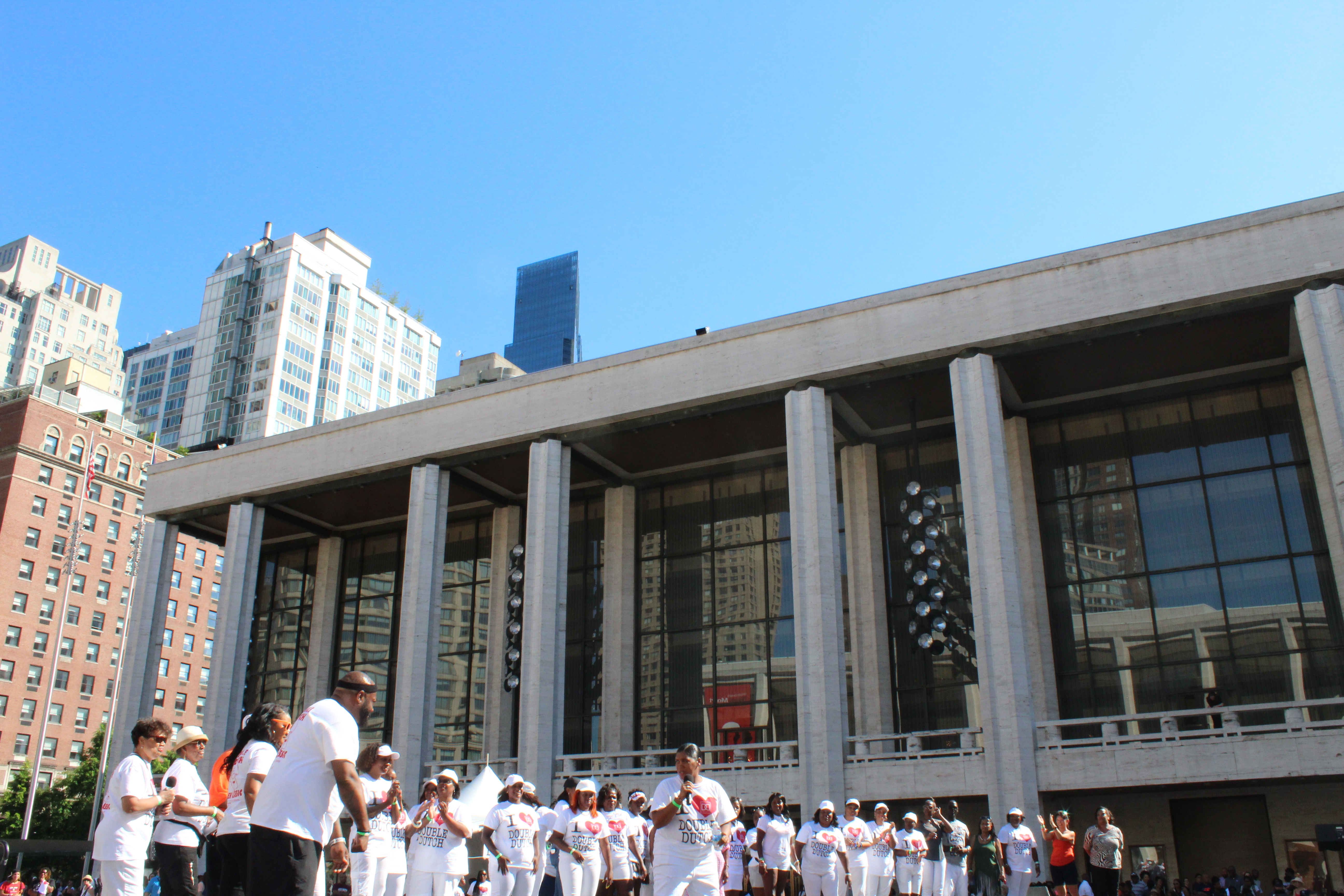 Legends of National Double Dutch League are honor at Lincoln Center